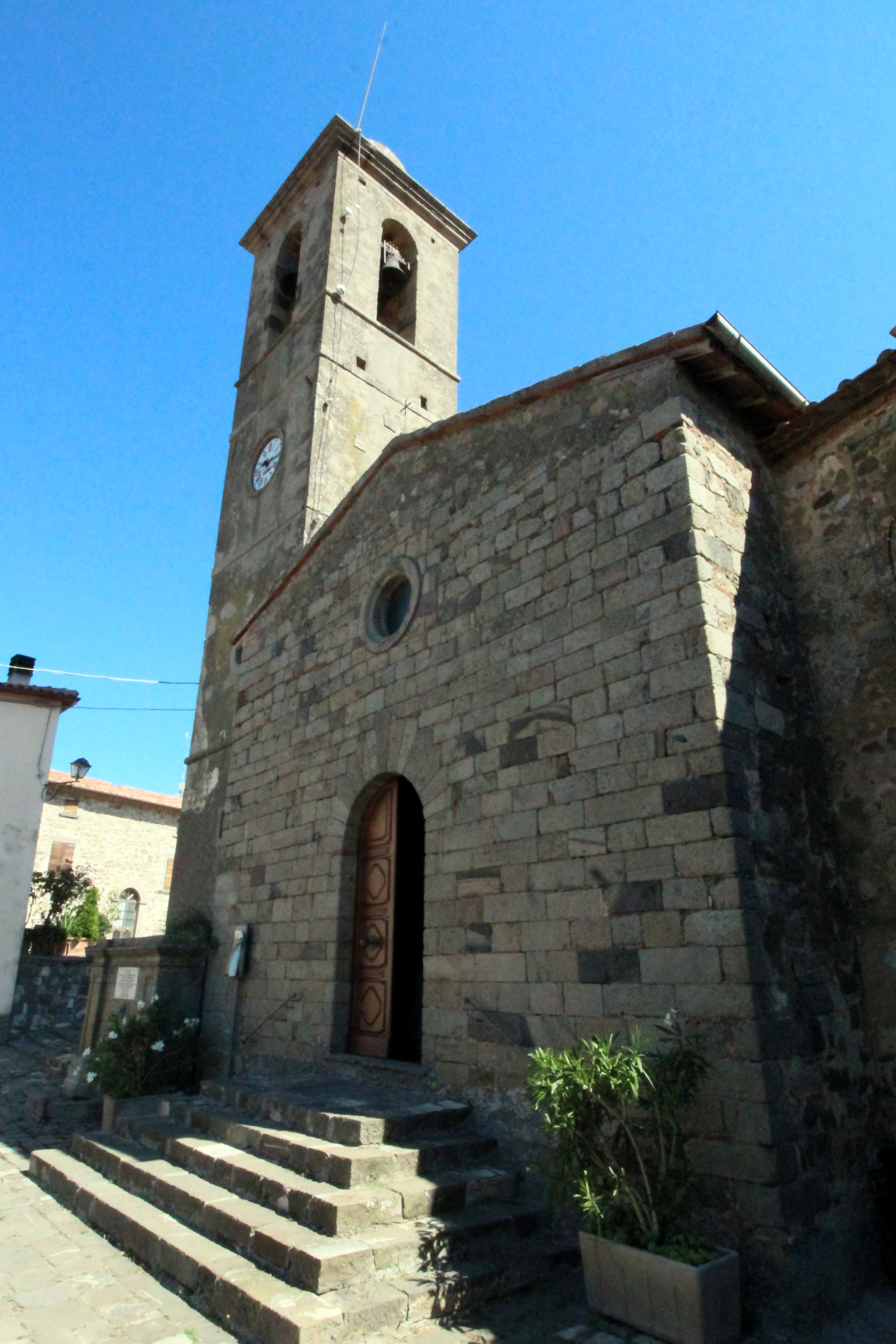 Church San Martino, inside the walls of Montegiovi, hamlet of Castel del Piano, Province of Grosseto, Tuscany, Italy